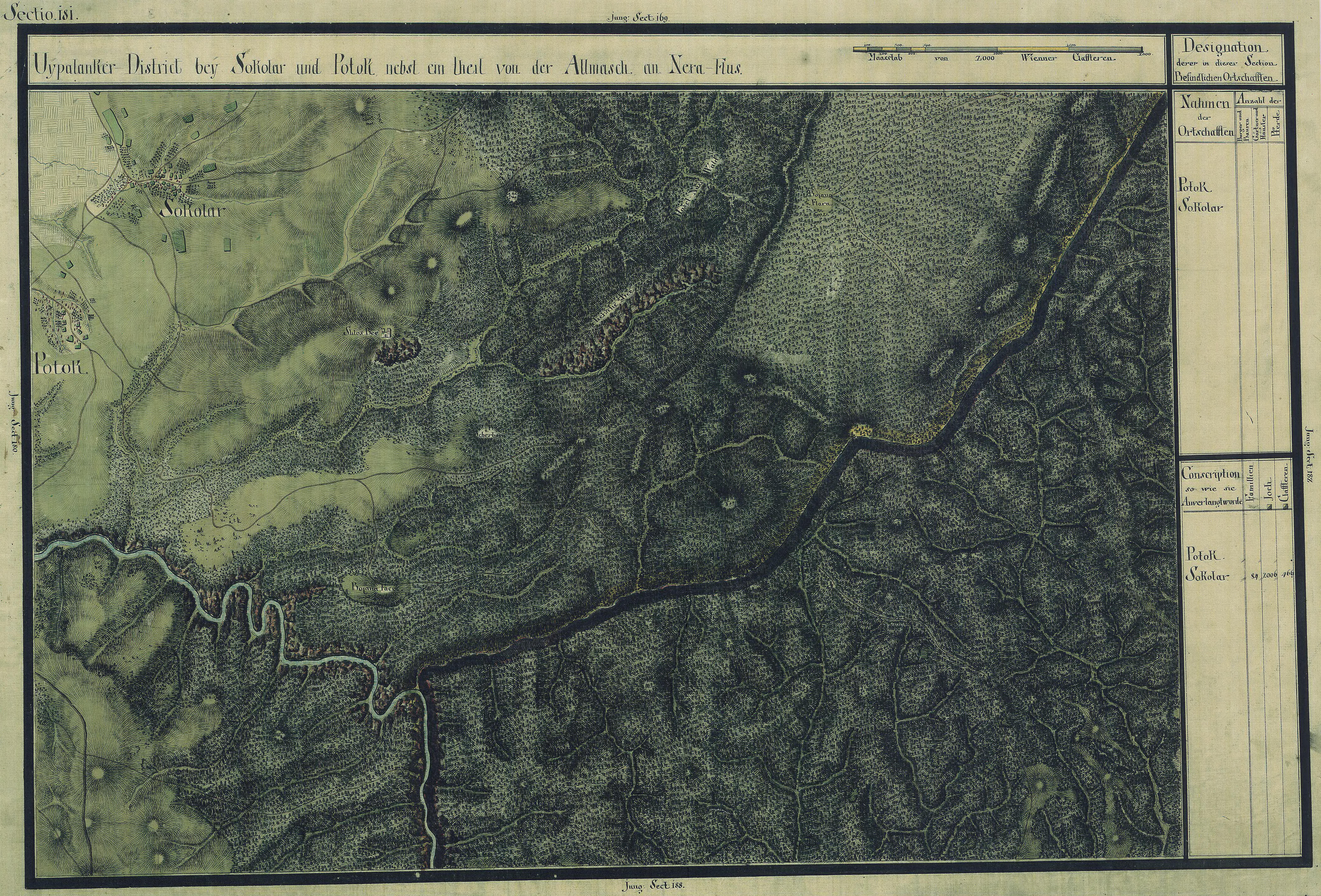 The Banat region in the cadastral maps: Josephinische Landesaufnahme, 1769-72. Josephinische Landaufnahme pg181